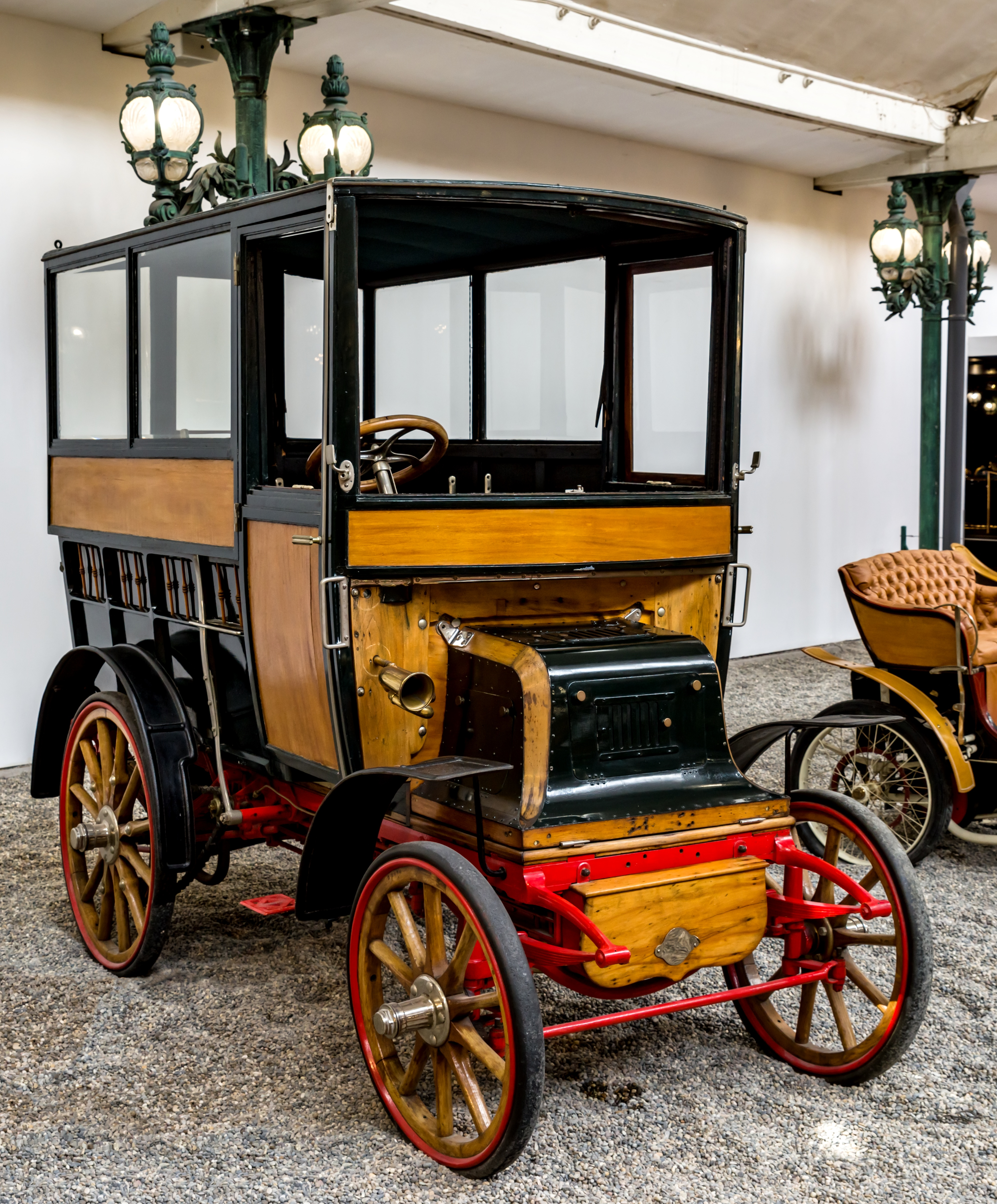 pictures from the Cité de l’Automobile – Musée National – Collection Schlump in Mulhouse, France ptictures from the 10. may 2018